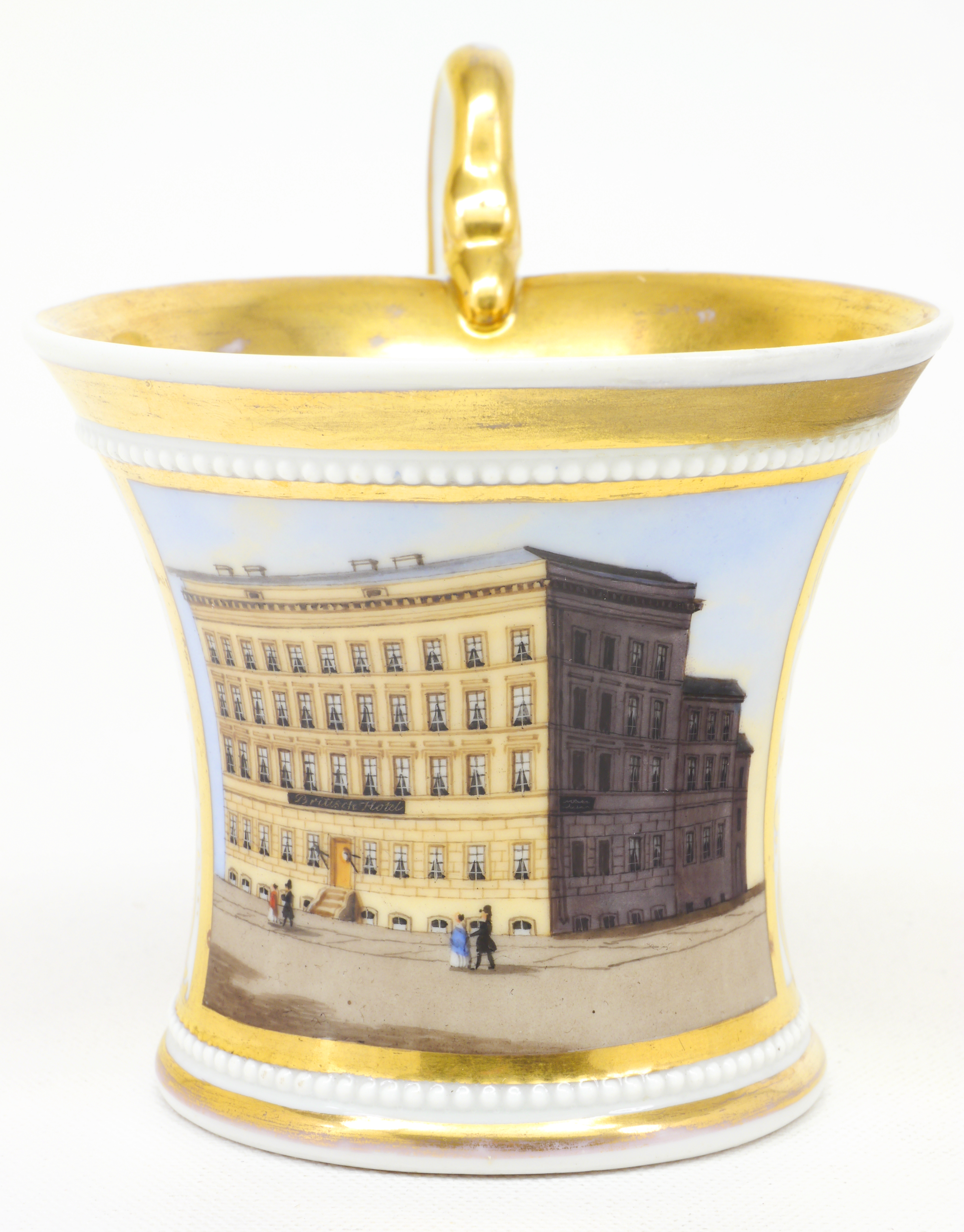 British Hotel KPM Berlin, 1837-1844